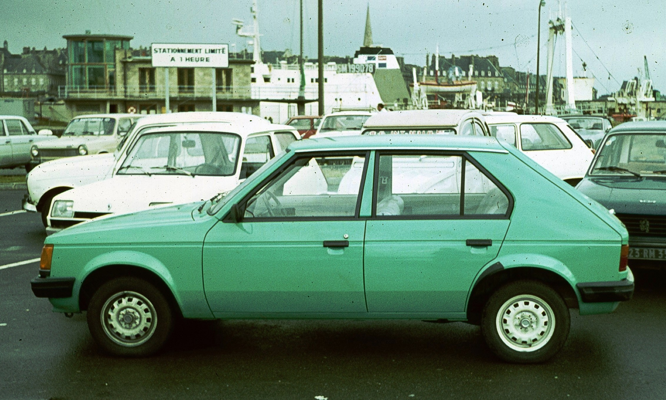 Chrysler Horizon, at St Malo. Behind it are a Renault 5, a Citroen 2CV and a Peugeot 104. Behind them, side on, are a Renault 4 and a(nother) Renault 5.